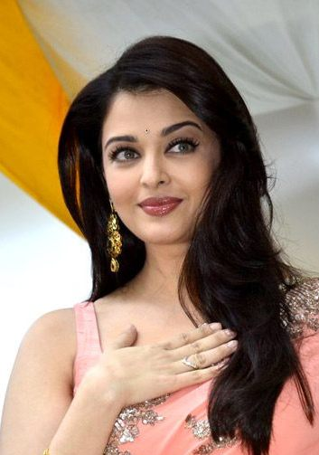 Aishwarya Rai Bachchan inaugurates Kalyan Jewellers' store